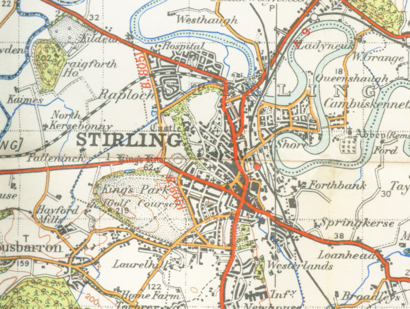 map of Stirling 1 inch to the mile scale scanned at 600 DPI